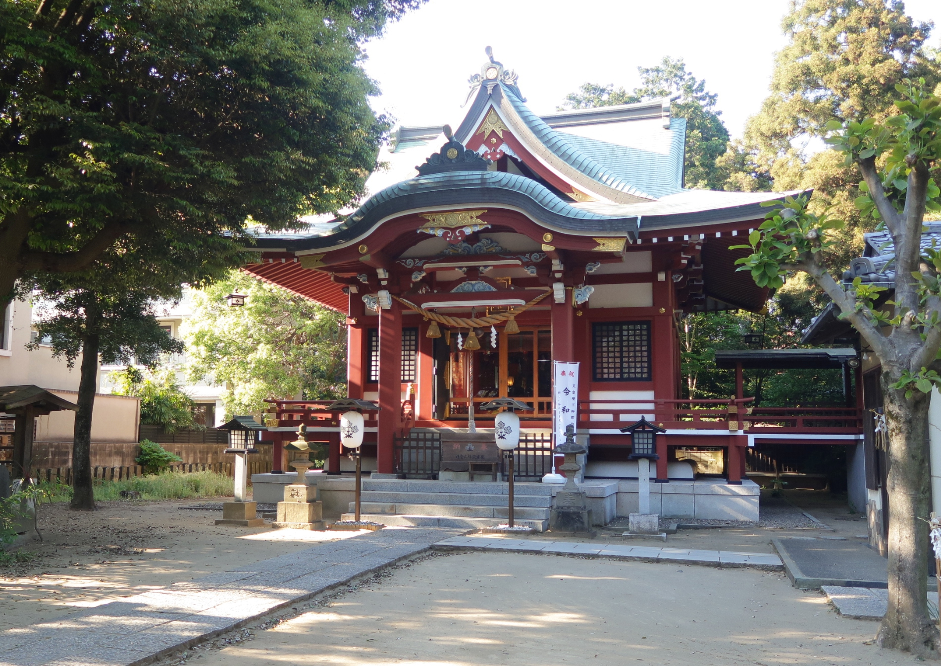 Suwa Shrine (Kashiwa, Chiba Prefecture)